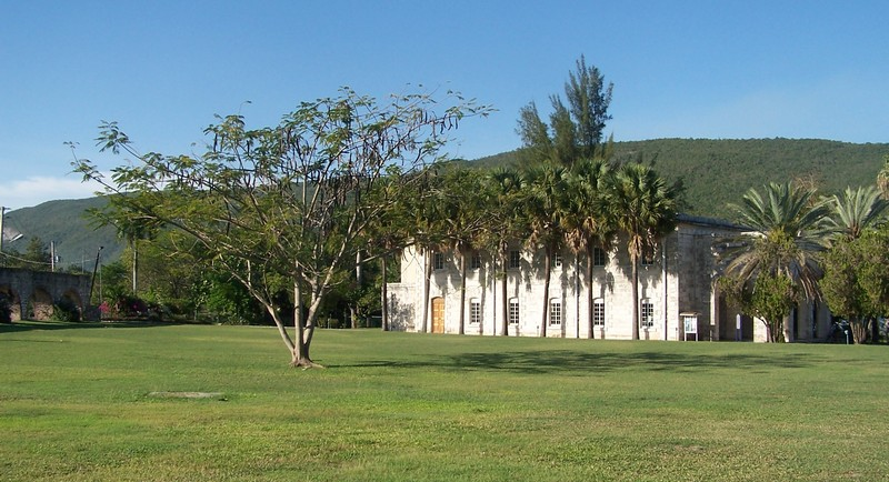 Chapel on Mona Campus of the University of the West Indies, on the left Aqueduct for the supply of sugar mills